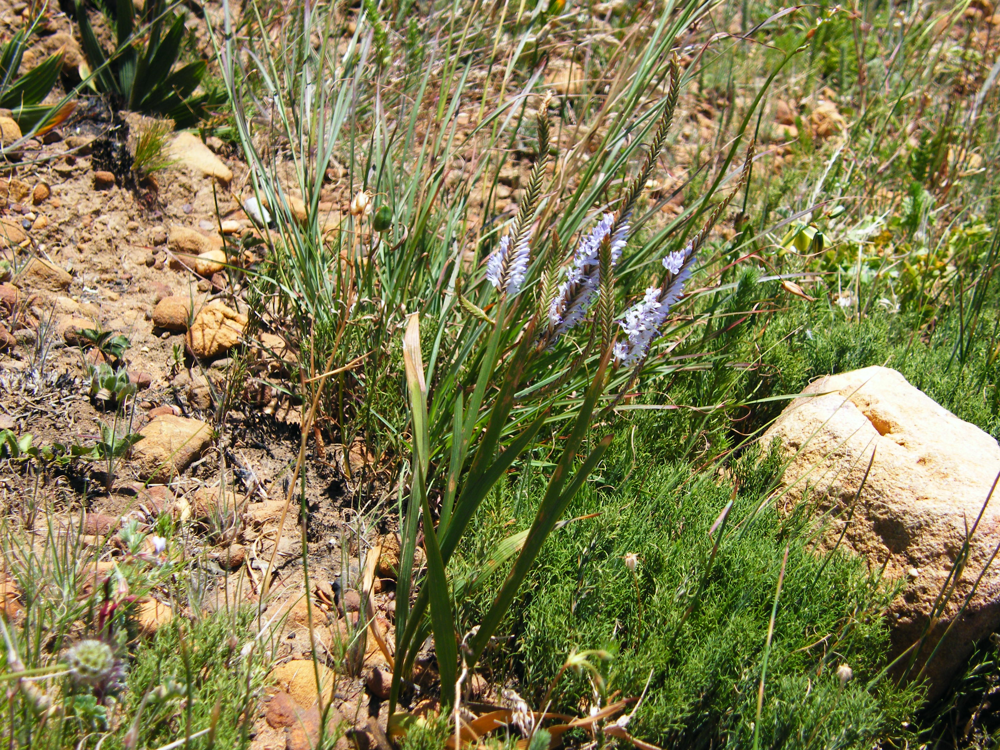 File:Micranthus alopecuroides flowers.jpg